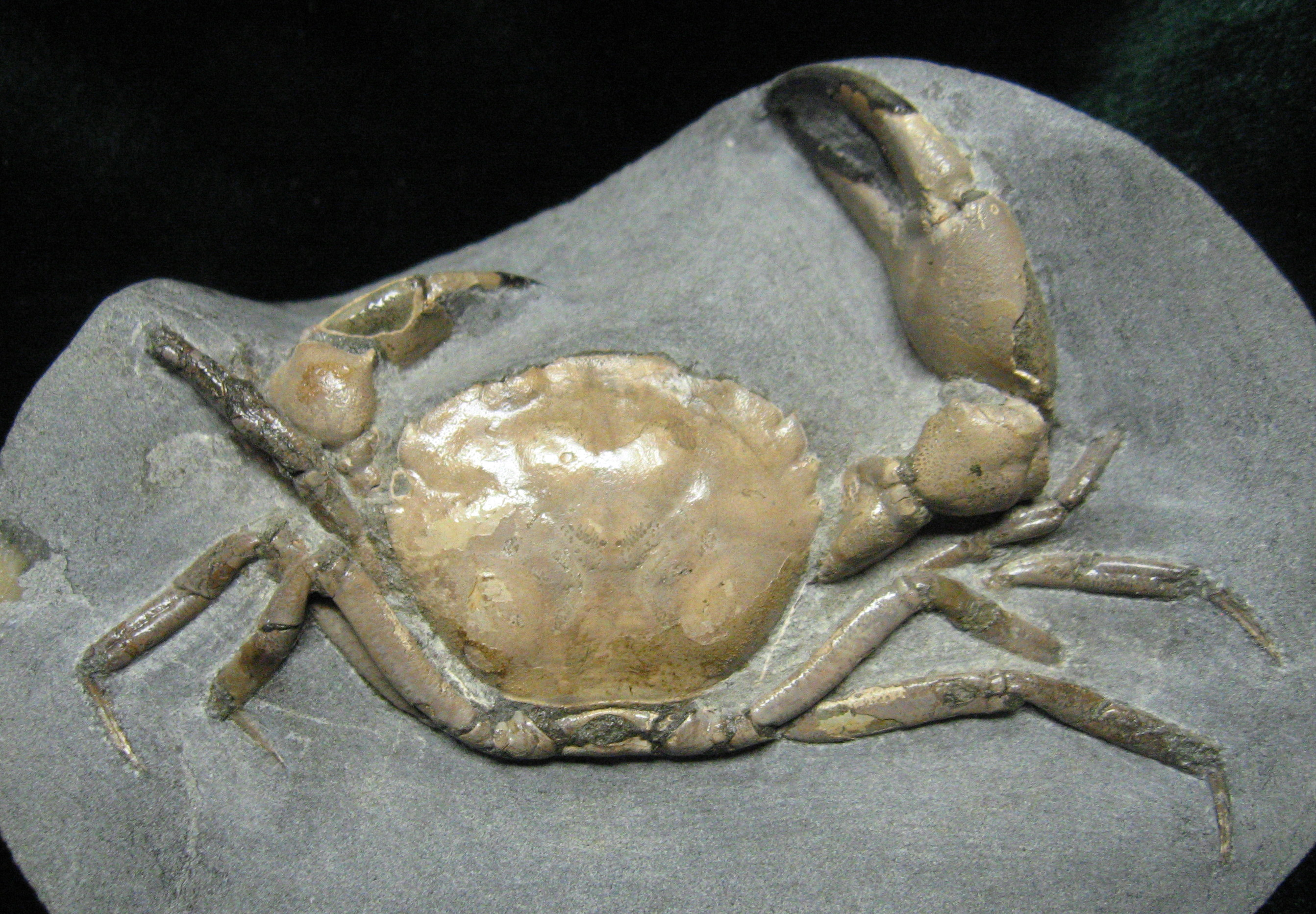 A fossil Branchioplax washingtoniana with a 3.5cm wide carapace, in surf worn cobble from the Eocene Hoko River Formation, Clallam County, Washington. Stonerose Interpretive Center Collections # SR EC 07-01-13.